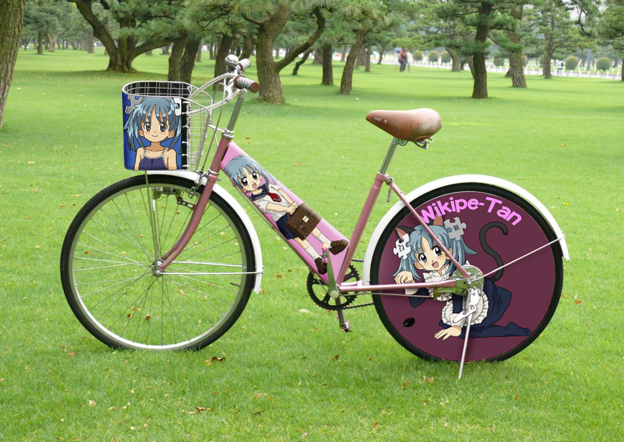 Wikipe-tan Itachari